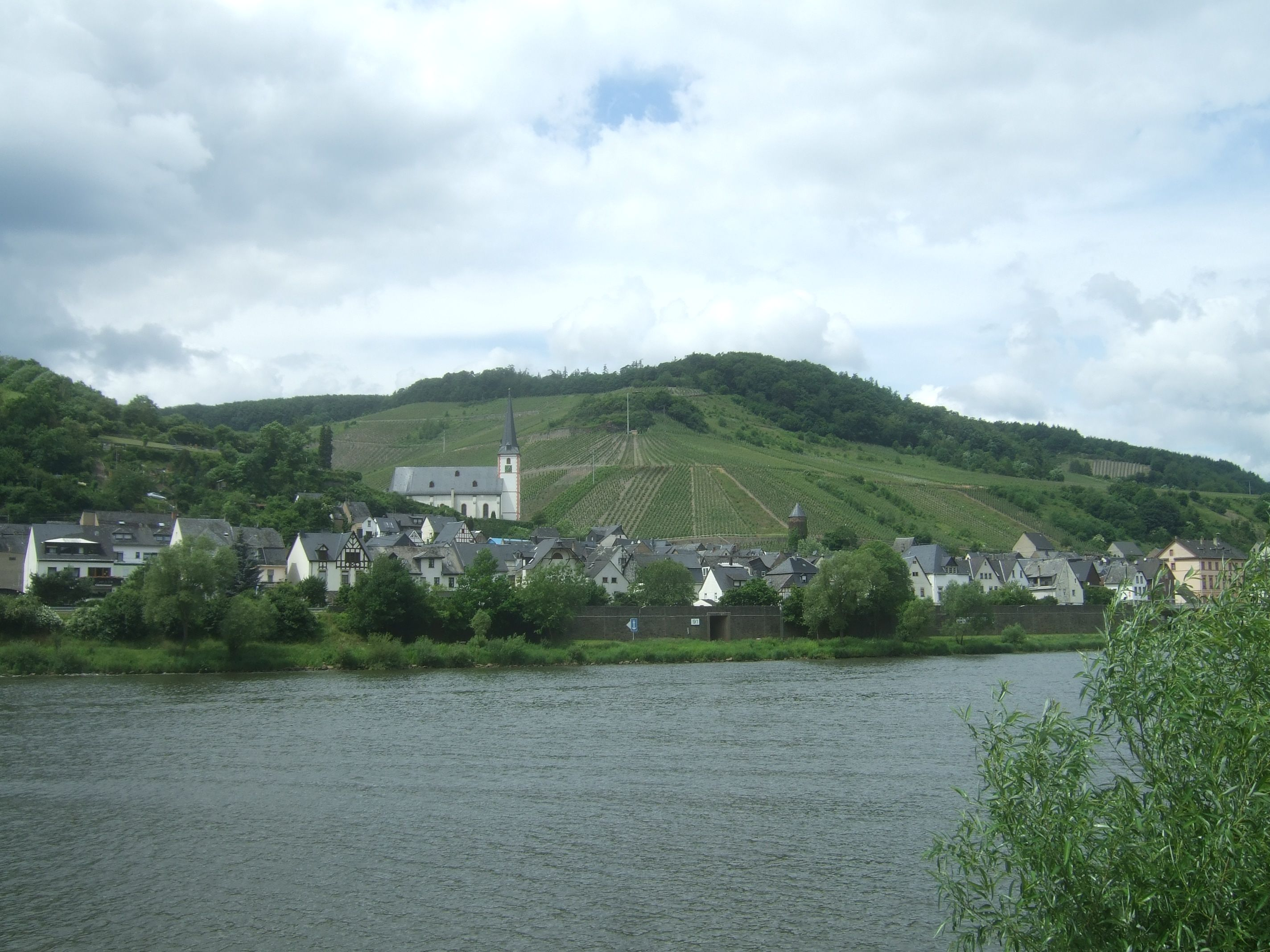 Briedel